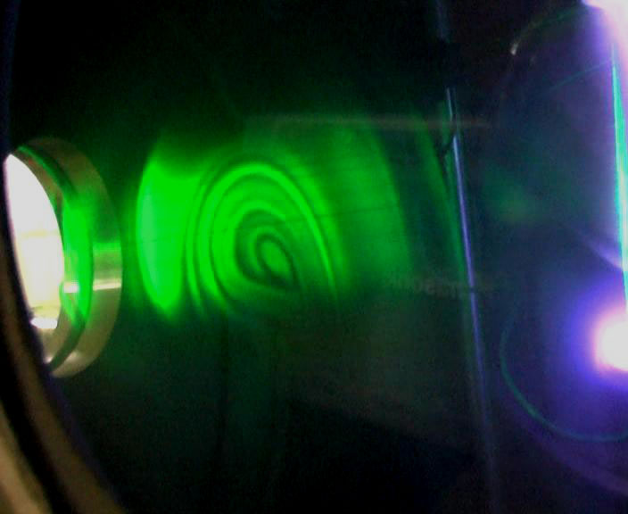 Dust formed in a glow discharge